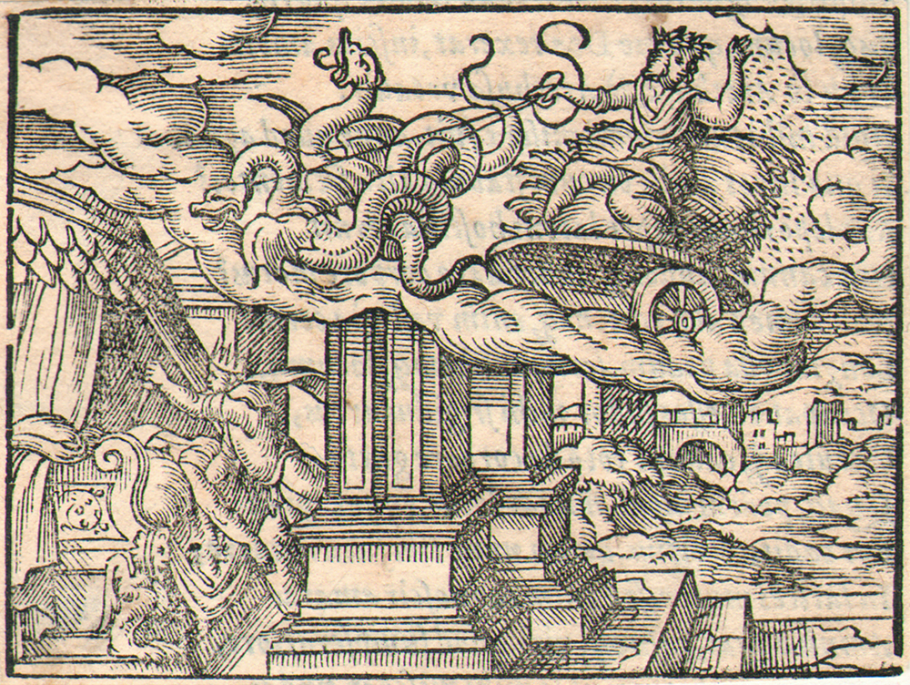 Triptolemus and Lyncus. Engraving by Virgil Solis for Ovid's Metamorphoses Book V, 642-661. Fol. 70r, image 8.